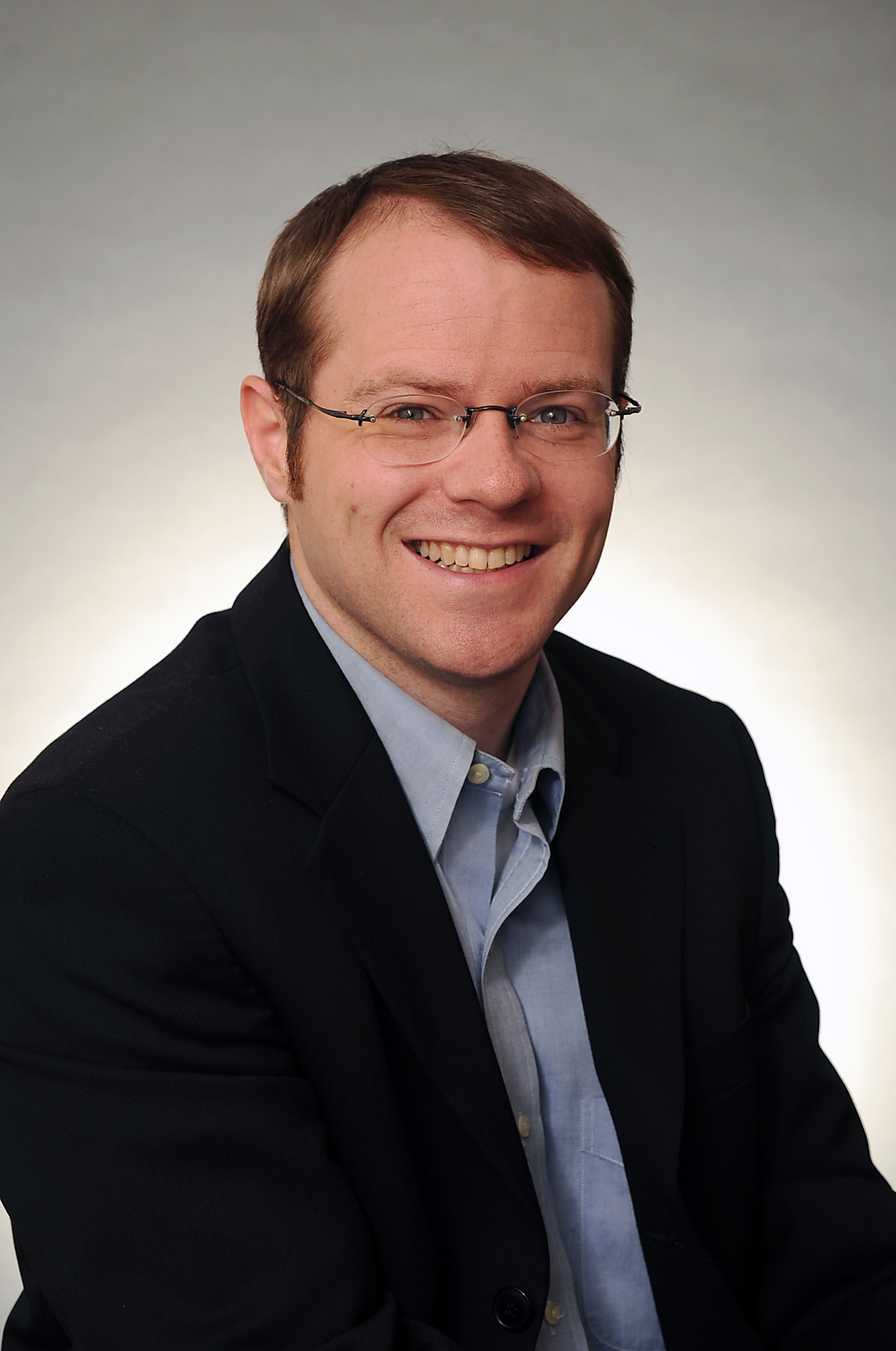 Photo of Benjamin K. Sovacool